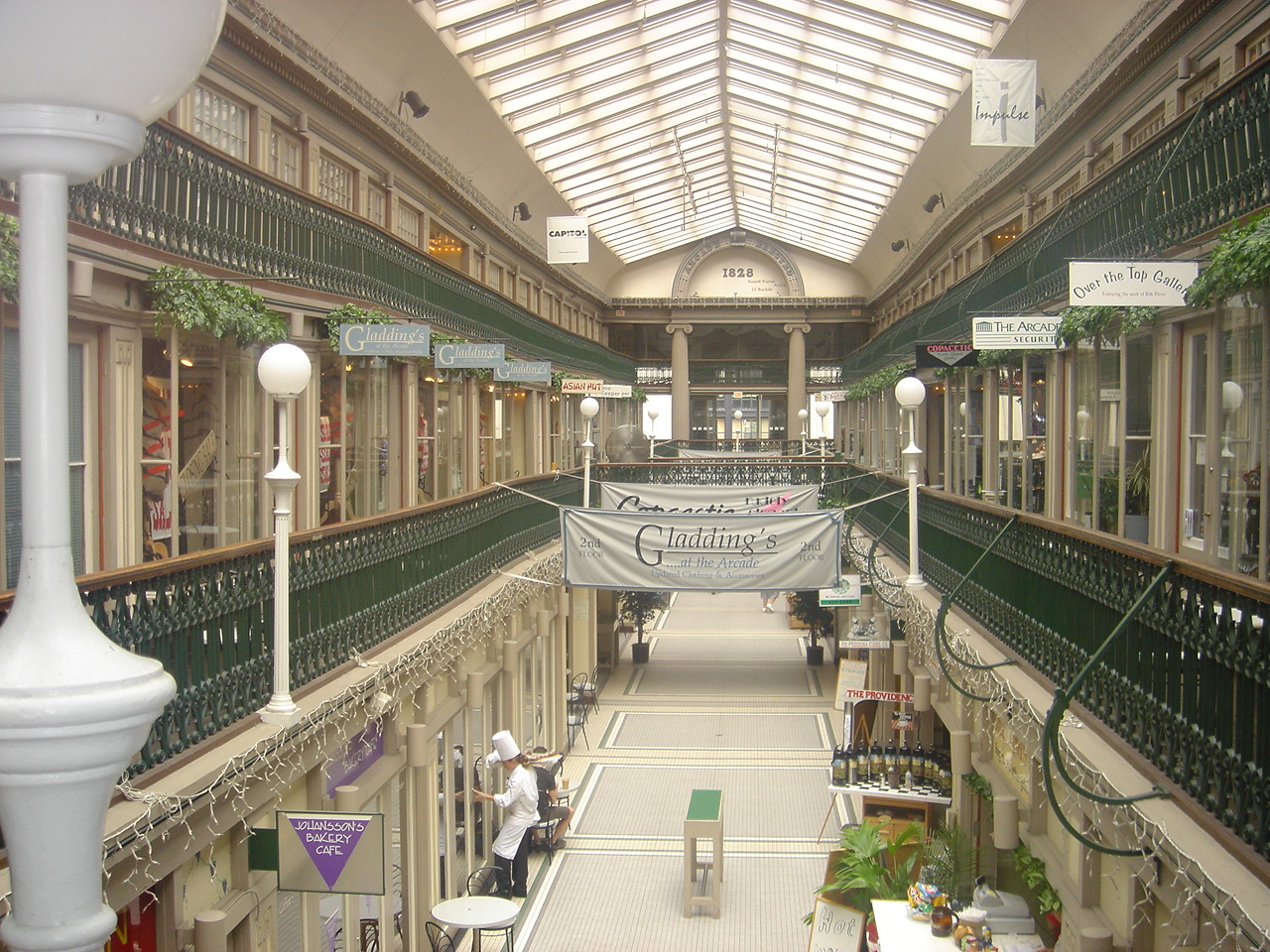 Interior of Westminster Arcade, Rhode Island Object location41° 49′ 25″ N, 71° 24′ 39″ W